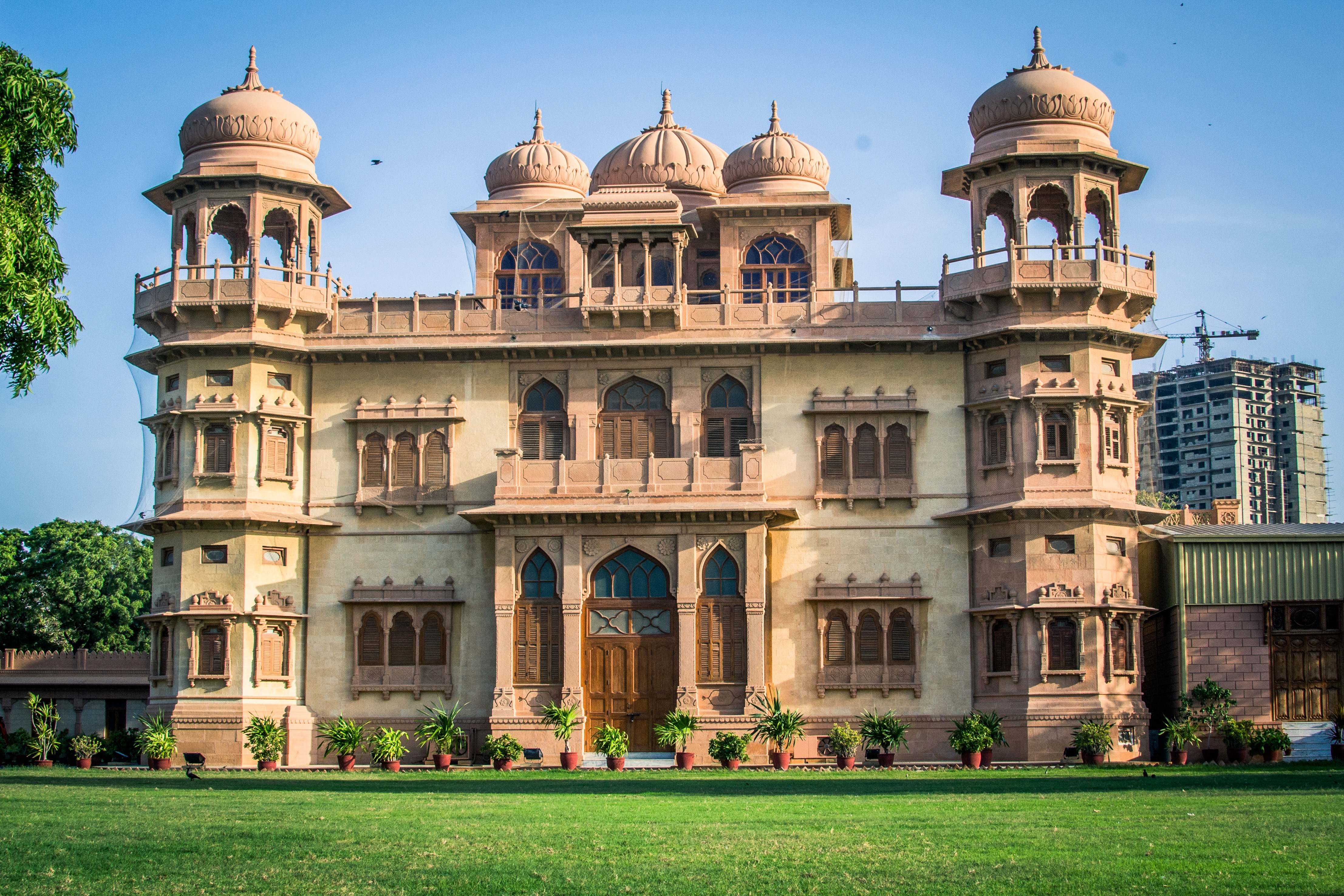 Mohatta Palace This is a photo of a monument in Pakistan identified as the SD-P-74